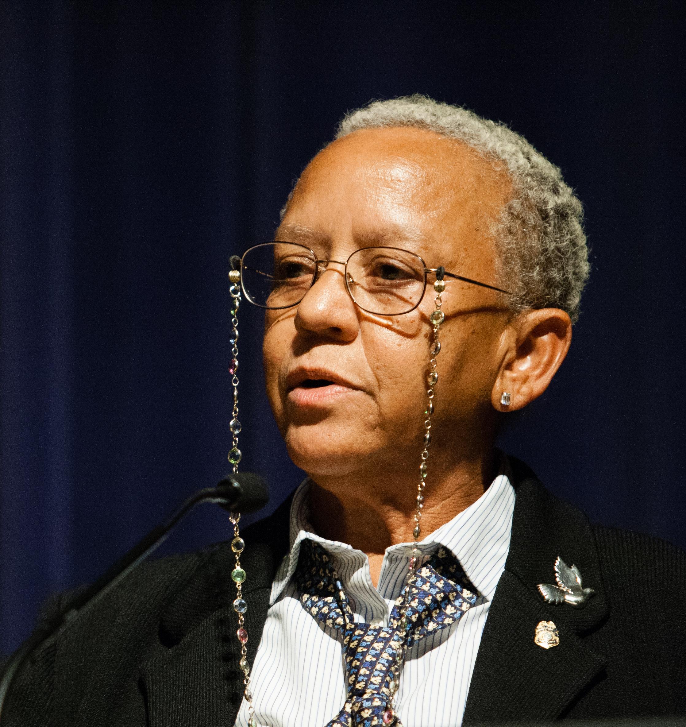 Yolande Cornelia "Nikki" Giovanni speaking at Emory University on 6 February 2008